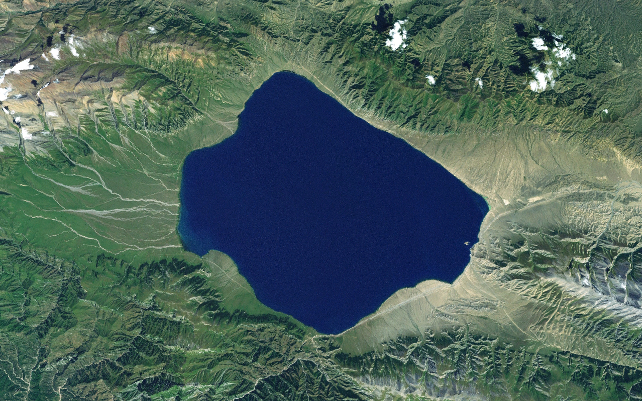 Satellite Image of Lake Sayram, Xinjiang, China